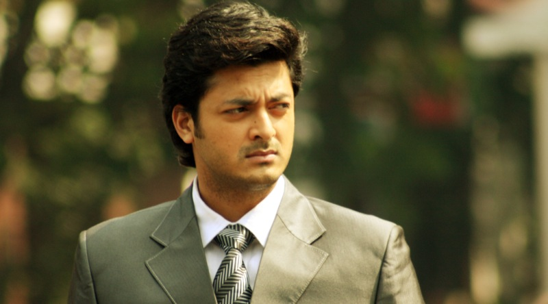 Bengali film actor Jishu Sengupta